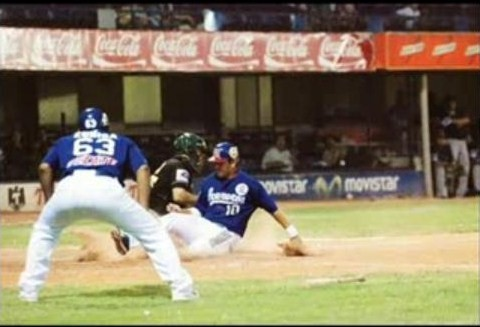 Monclova Steelers